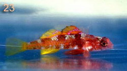 Picture of Speleogobius trigloides